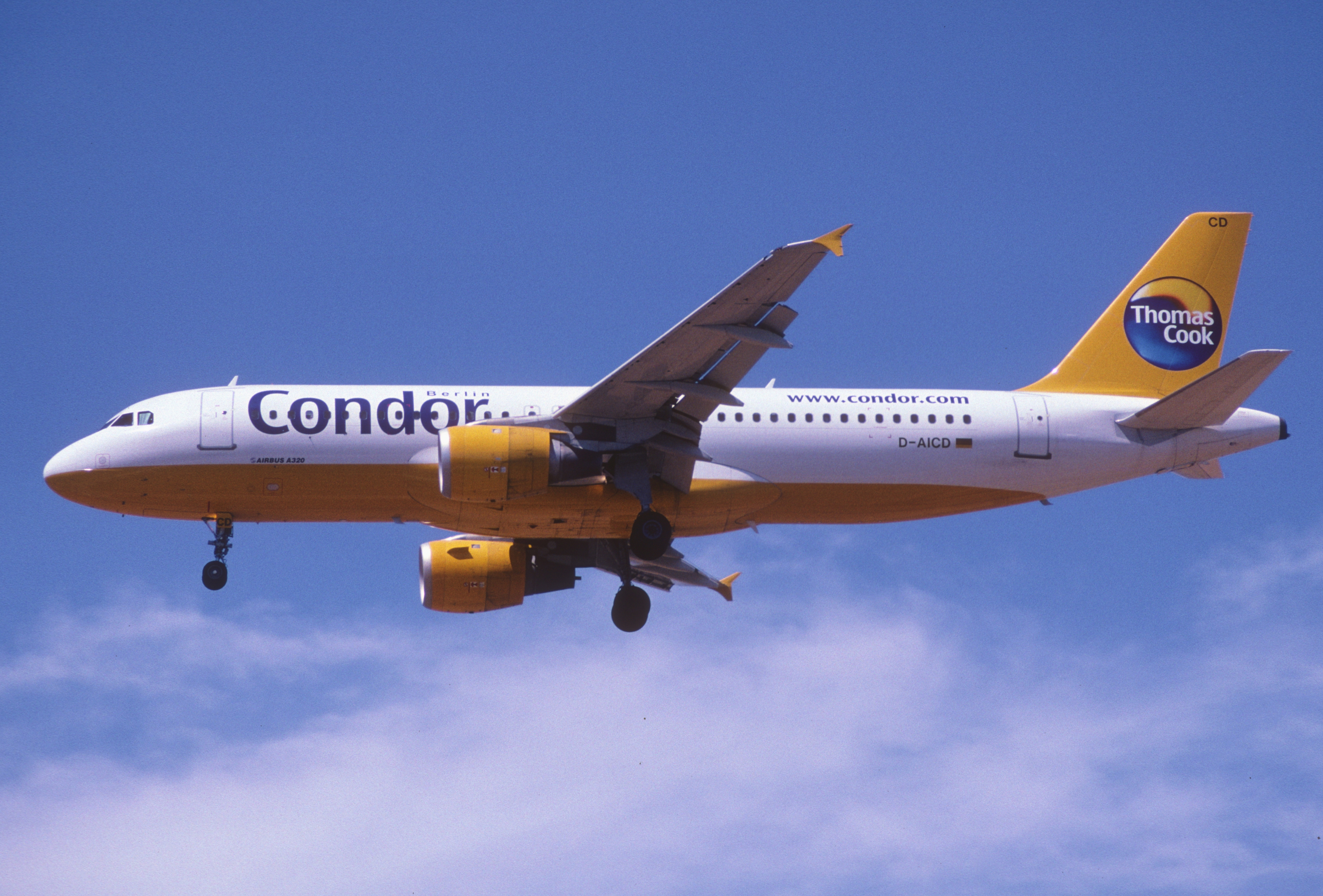 366cz - Condor Berlin Airbus A320-212; D-AICD@PMI;07.08.2005